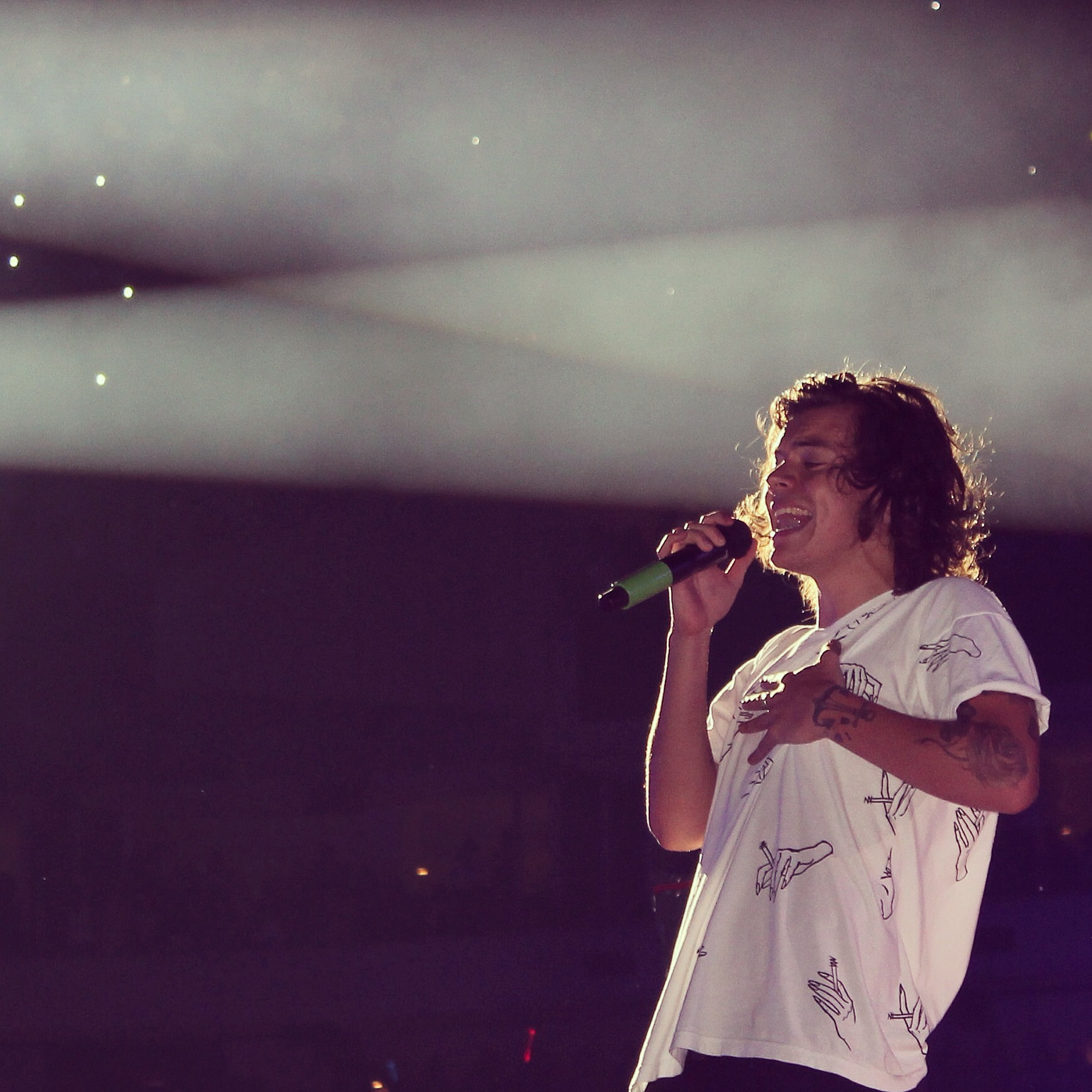 One Direction "Where We Are Tour" 2014.